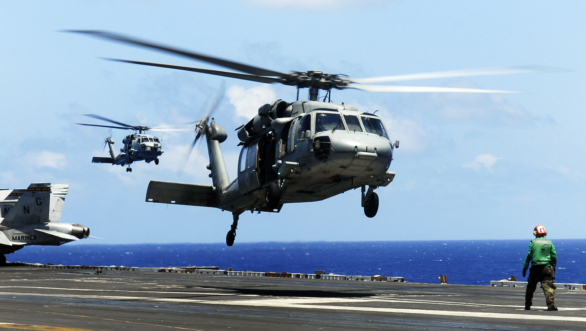 PACIFIC OCEAN (March 28, 2009) An MH-60S Sea Hawk helicopter from the "Eightballers" of Helicopter Sea Combat Squadron (HSC) 8, front, and an MH-60R Sea Hawk helicopter from the "Raptors" of Helicopter Maritime Strike Squadron (HSM) 71 land aboard the aircraft carrier USS John C. Stennis (CVN 74). John C. Stennis and Carrier Air Wing 9 (CVW) 9 are on a scheduled six-month deployment to the western Pacific Ocean. (U.S. Navy photo by Mass Communication Specialist 3rd Class Josue L. Escobosa/Released)